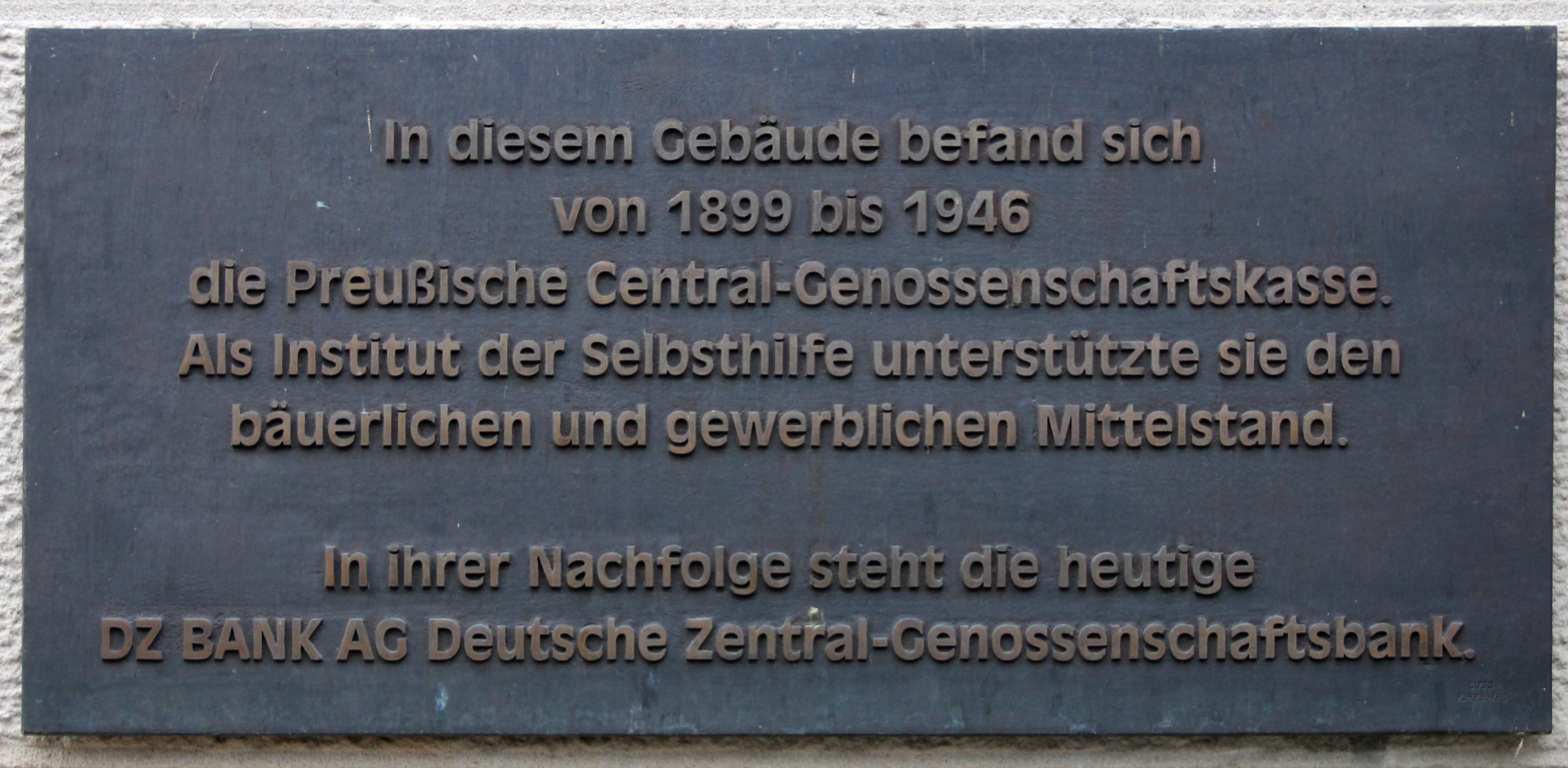 Memorial plaque, Preußische Central-Genossenschaftskasse, Am Zeughaus 2, Berlin-Mitte, Germany